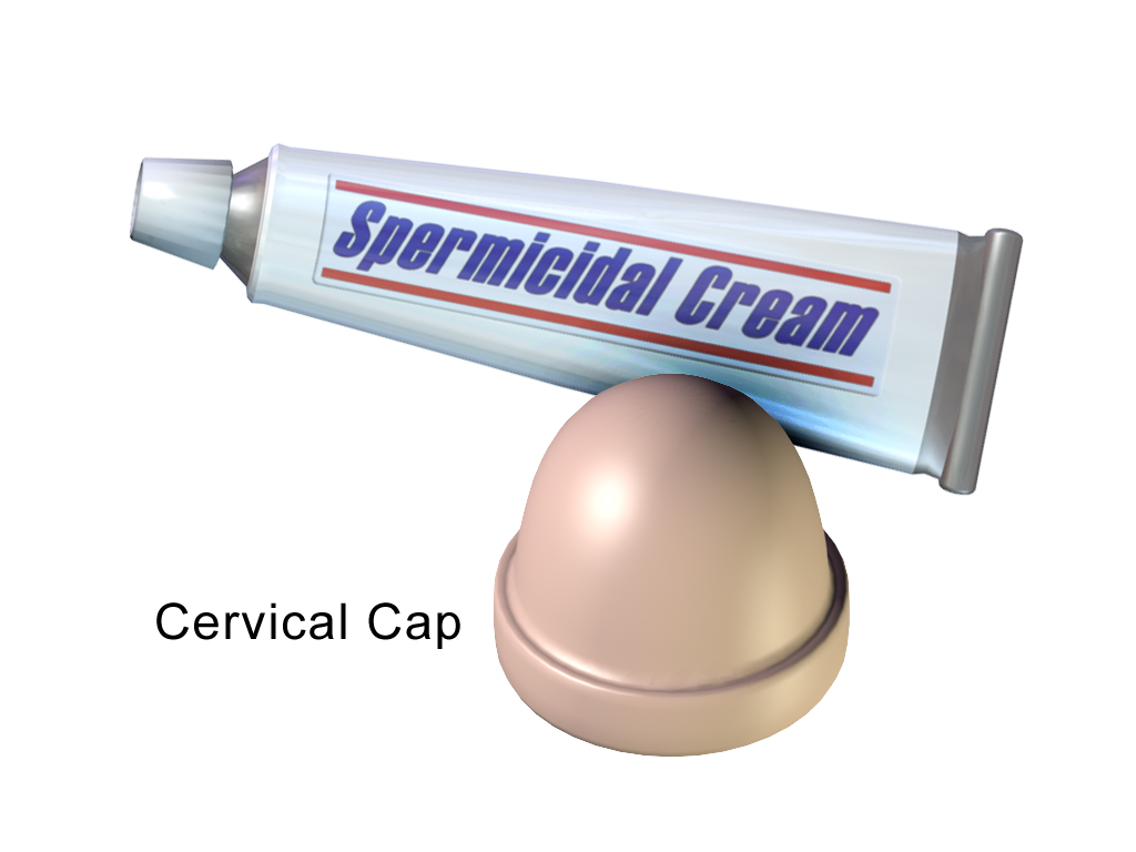 Illustration of a cervical cap